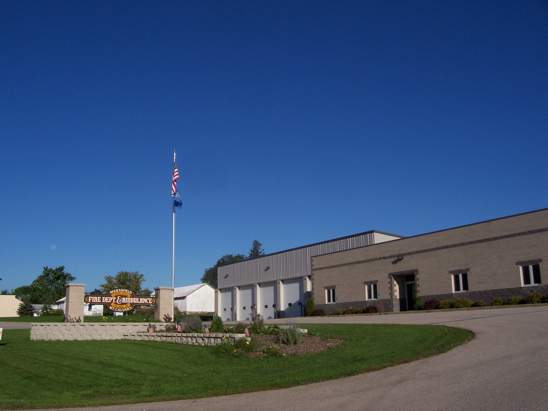 Looking east at the town hall for Marshfield, Fond du Lac County, Wisconsin which doubles as the fire station for Mount Calvary, Wisconsin.